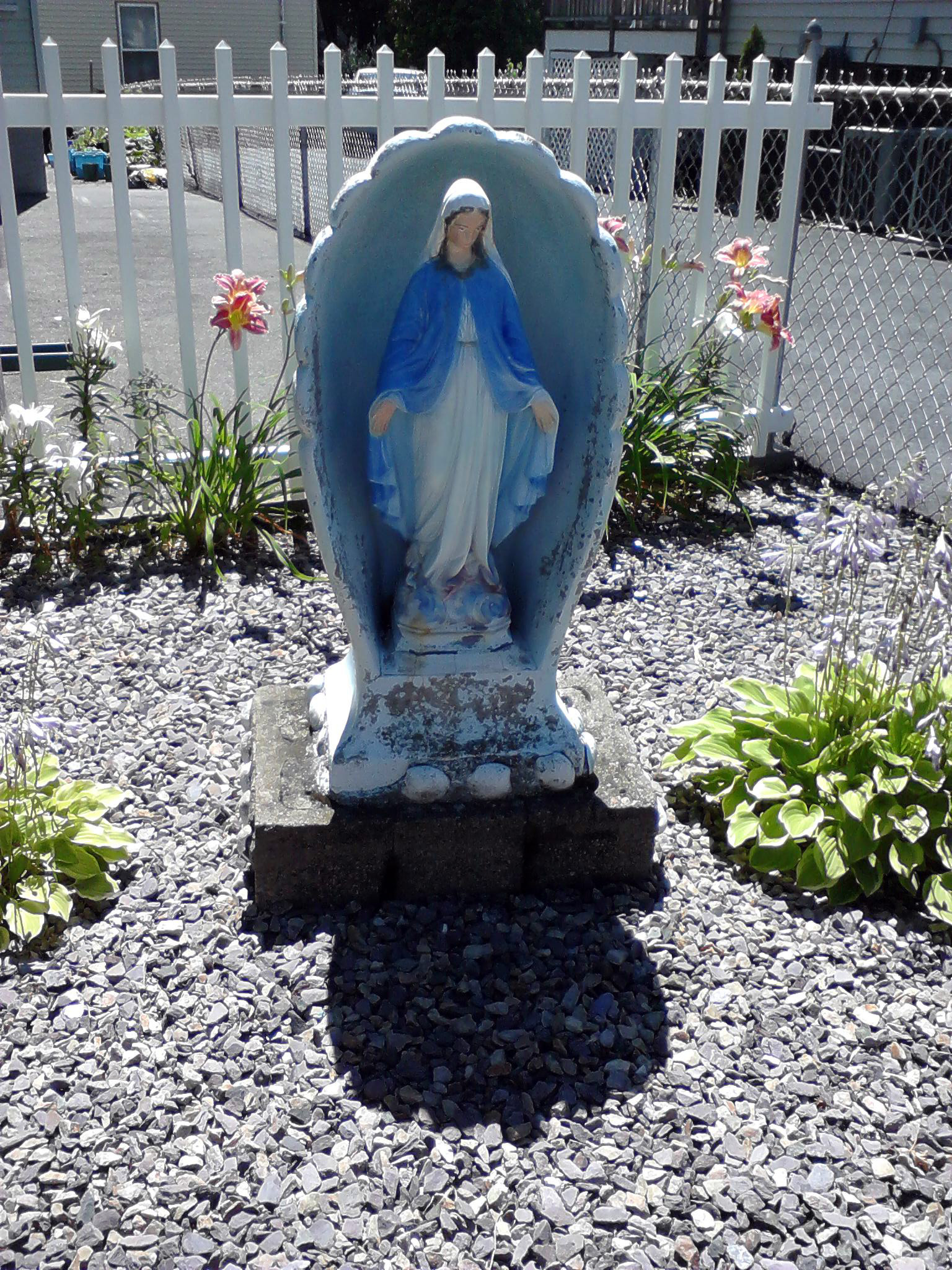 "Mary on the Half Shell," (grotto of Mary), in Somerville, Massachusetts, near Davis Square. Note actual clam shells set into concrete base.